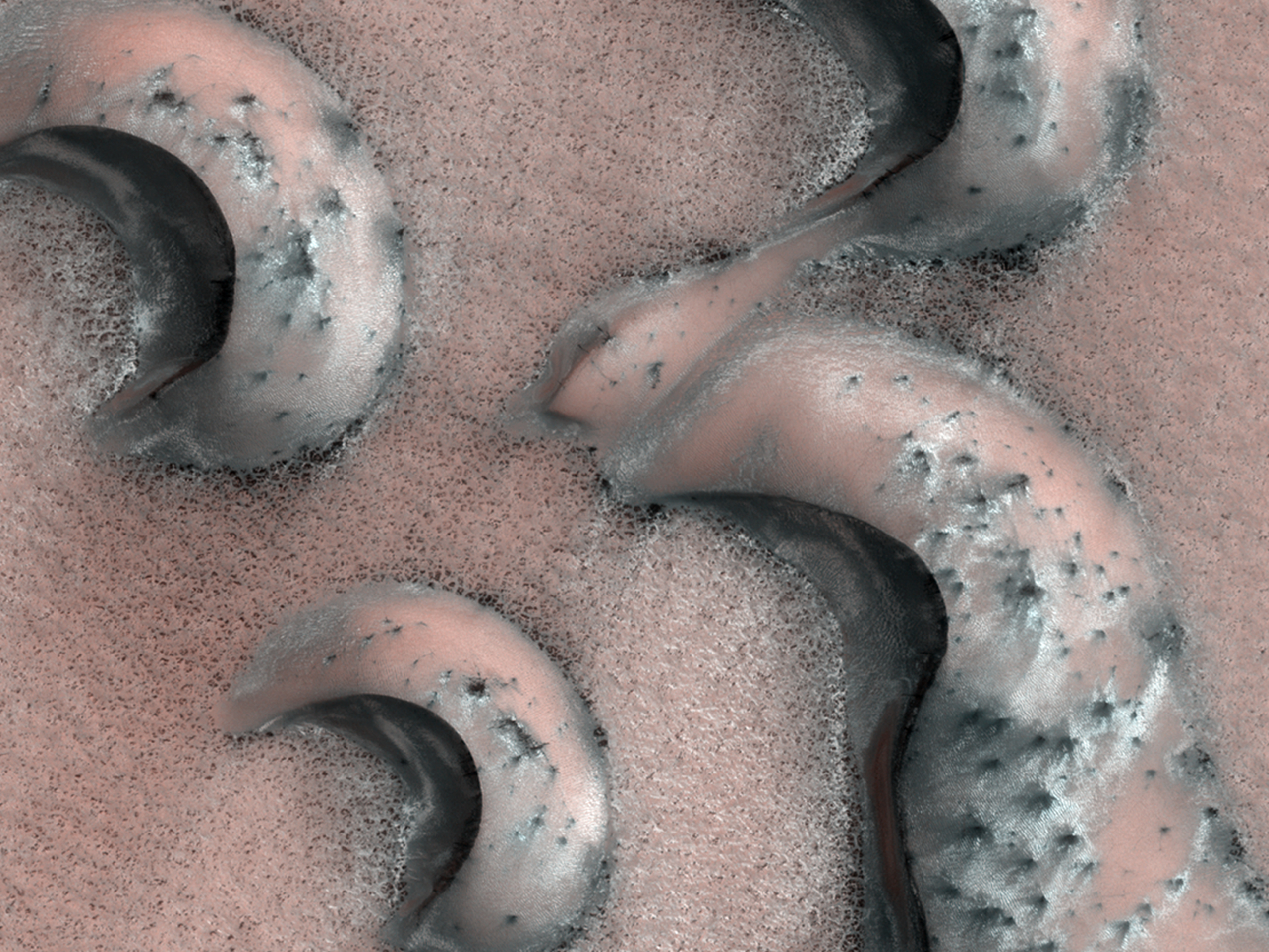 Barchan dunes on Mars as seen by HiRISE on the Mars Reconnaissance Orbiter. Part of an experiment to track changes of martian dunes, in combination with MOC, whereas it was found that two dunes had dissappeared and their material was transferred to a third dune.